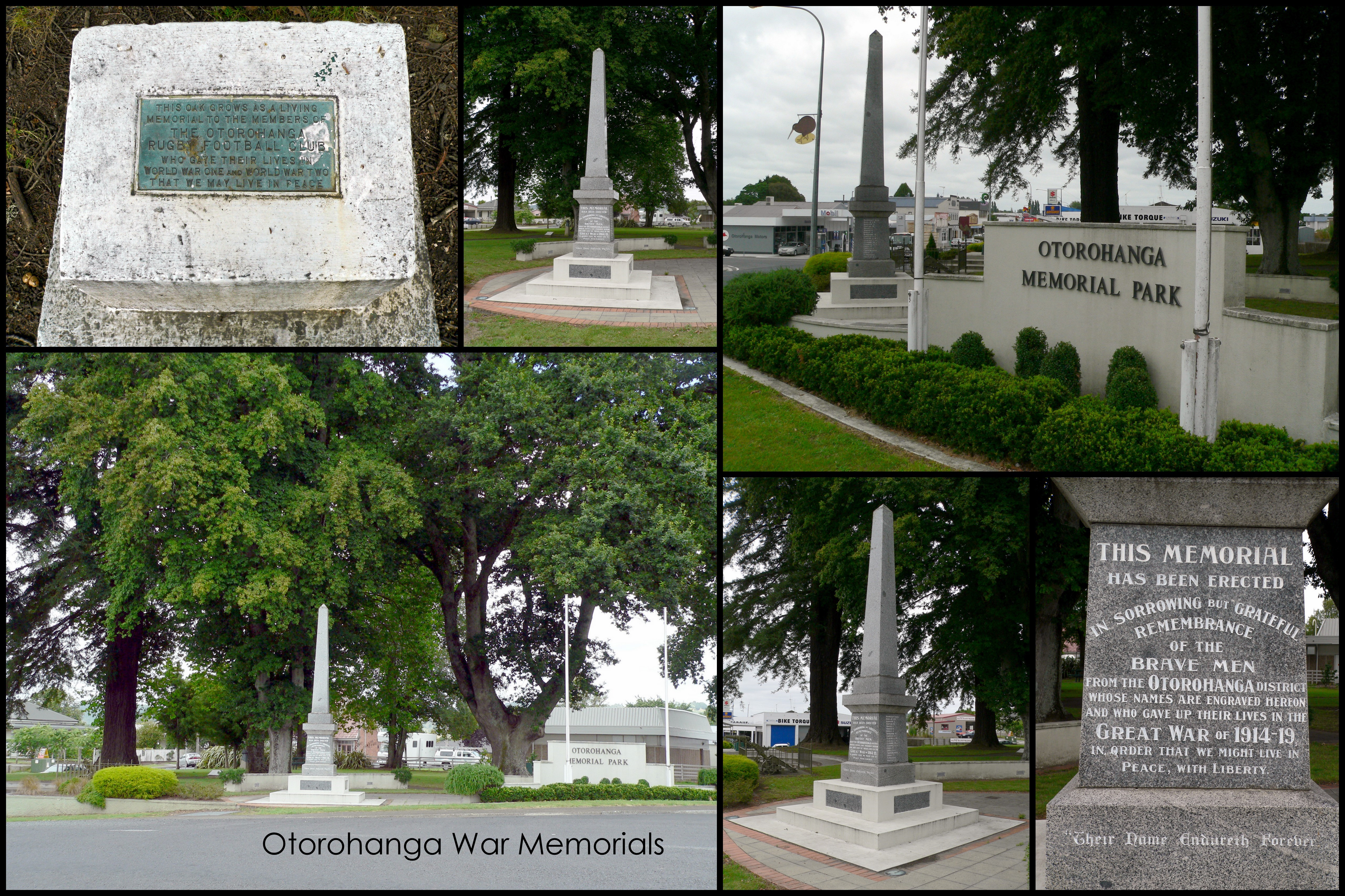 Otorohanga war memorials, including the World War One Memorial, NZHPT registration number 4260 (Category II)